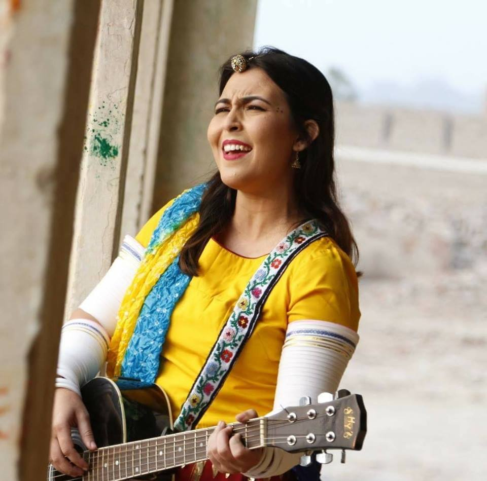 This shot was Taken during the music video shoot of Kesaria, in UmerKot Sindh.